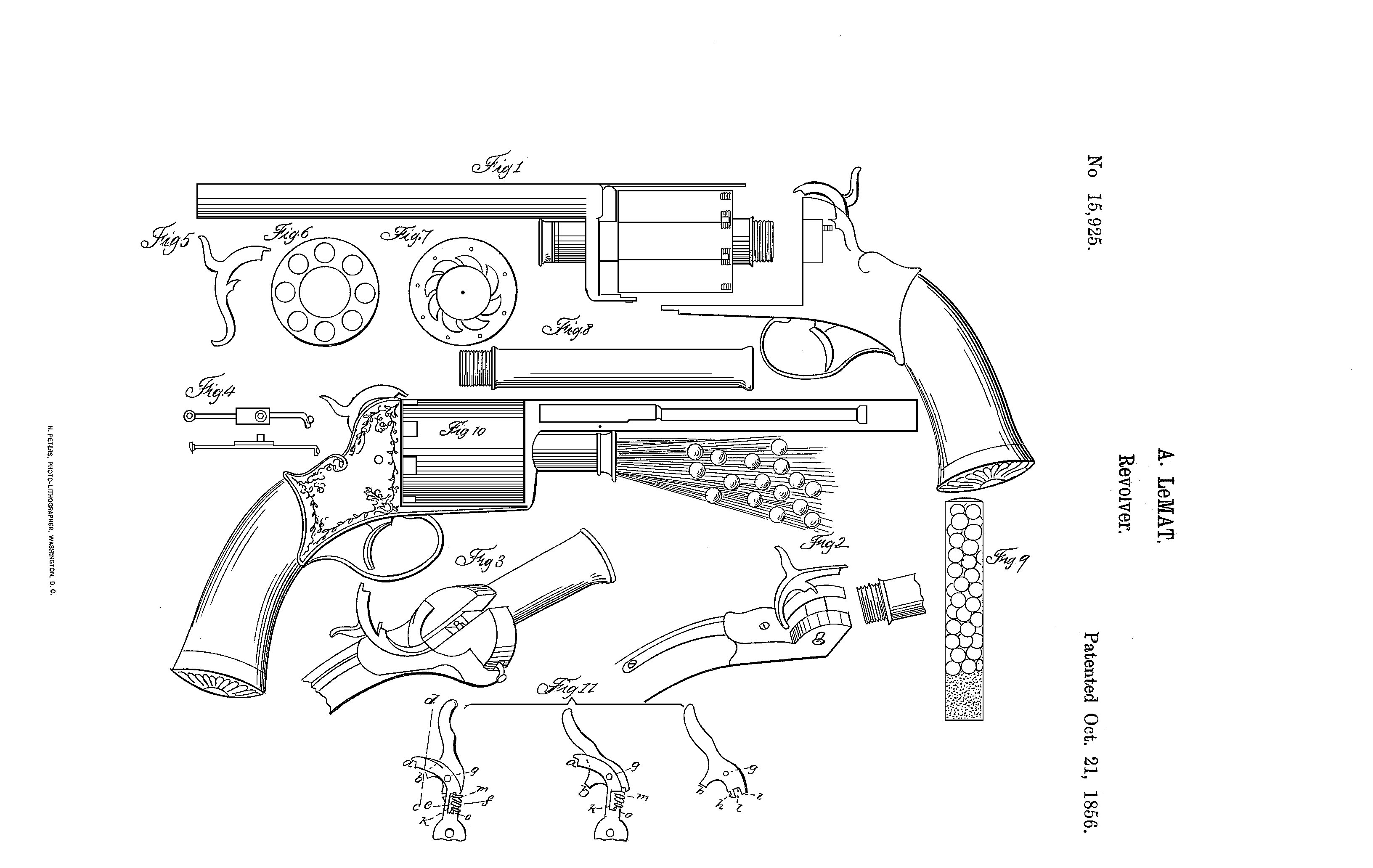 US Patent drawing of the LeMat revolver. Digitally enhanced and remastered by FockeWulf FW 190.